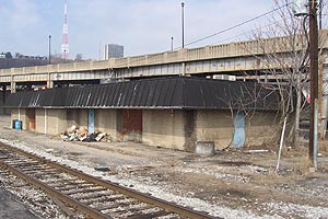 The former Cincinnati River Road station in 2005